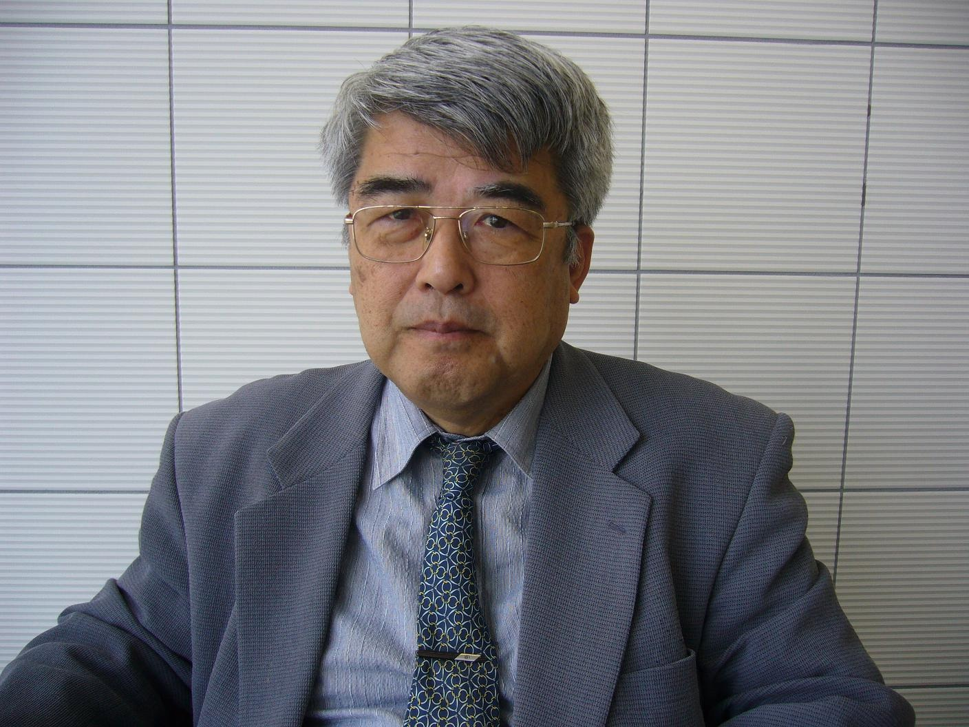 SUZUKI_Masaaki